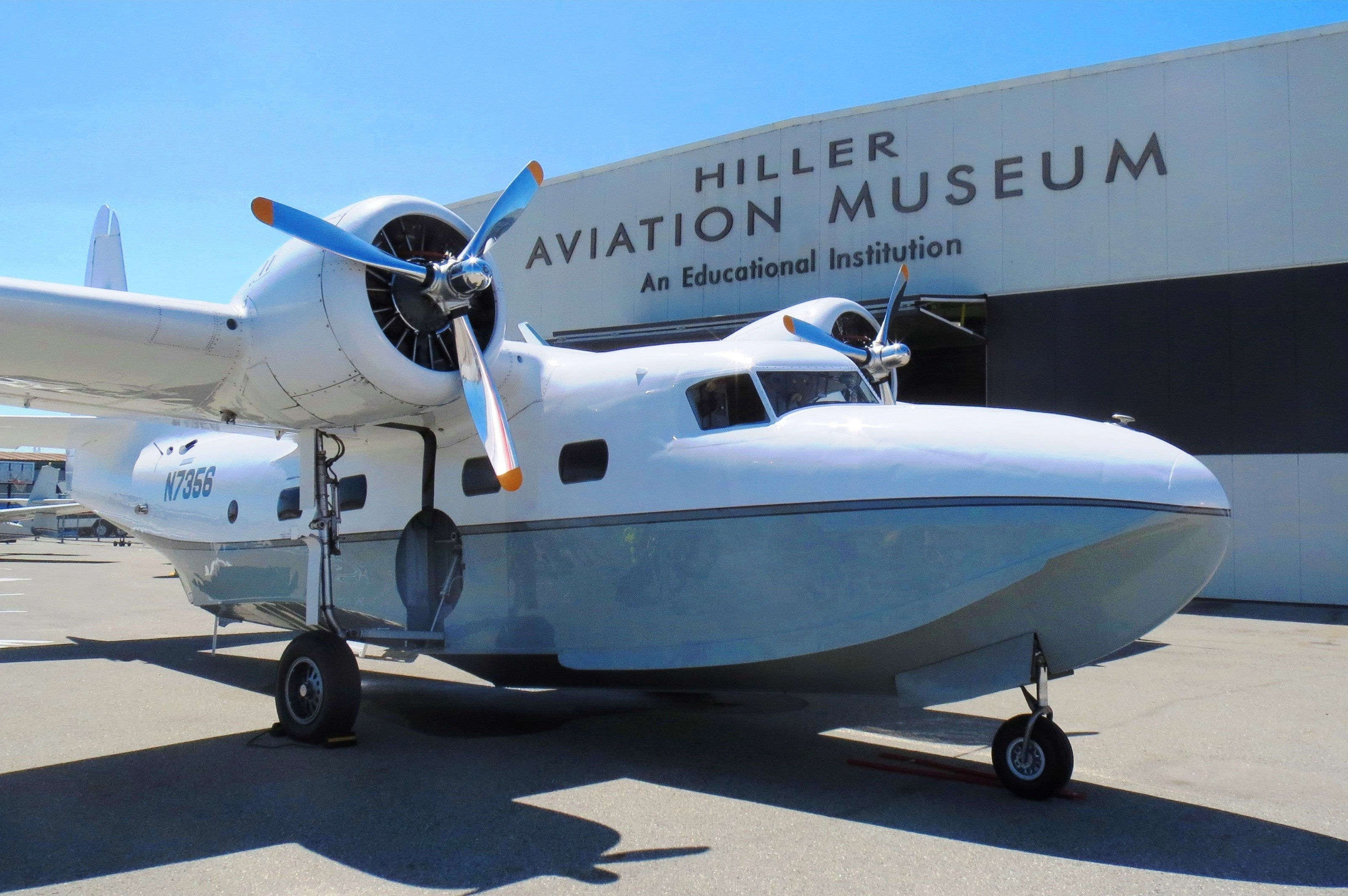 Grumman G-73 Mallard N7356 Serial Number J56. Photo taken at San Carlos Airport, Hiller Aviation Museum, August 2014.